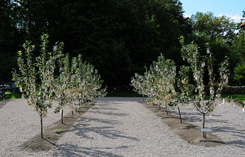 Yoko Ono, Wish Tree for Wanås, 2011